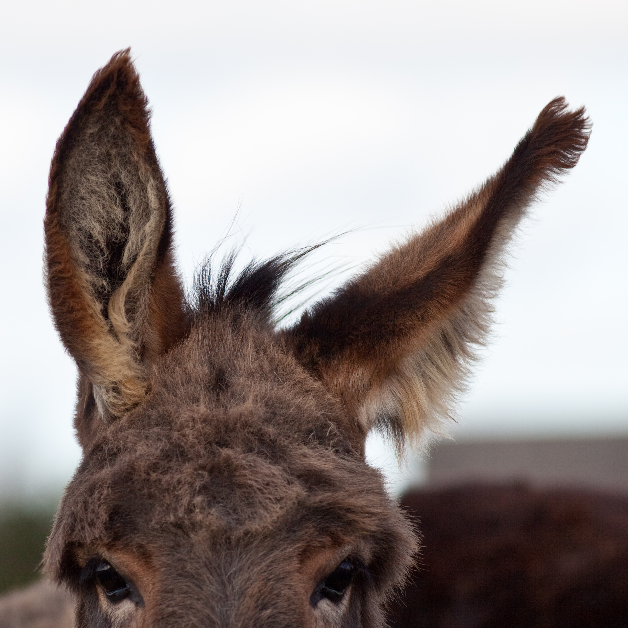 The donkey can move its ears like antennae to have better hearing. It uses its active auricular muscle.